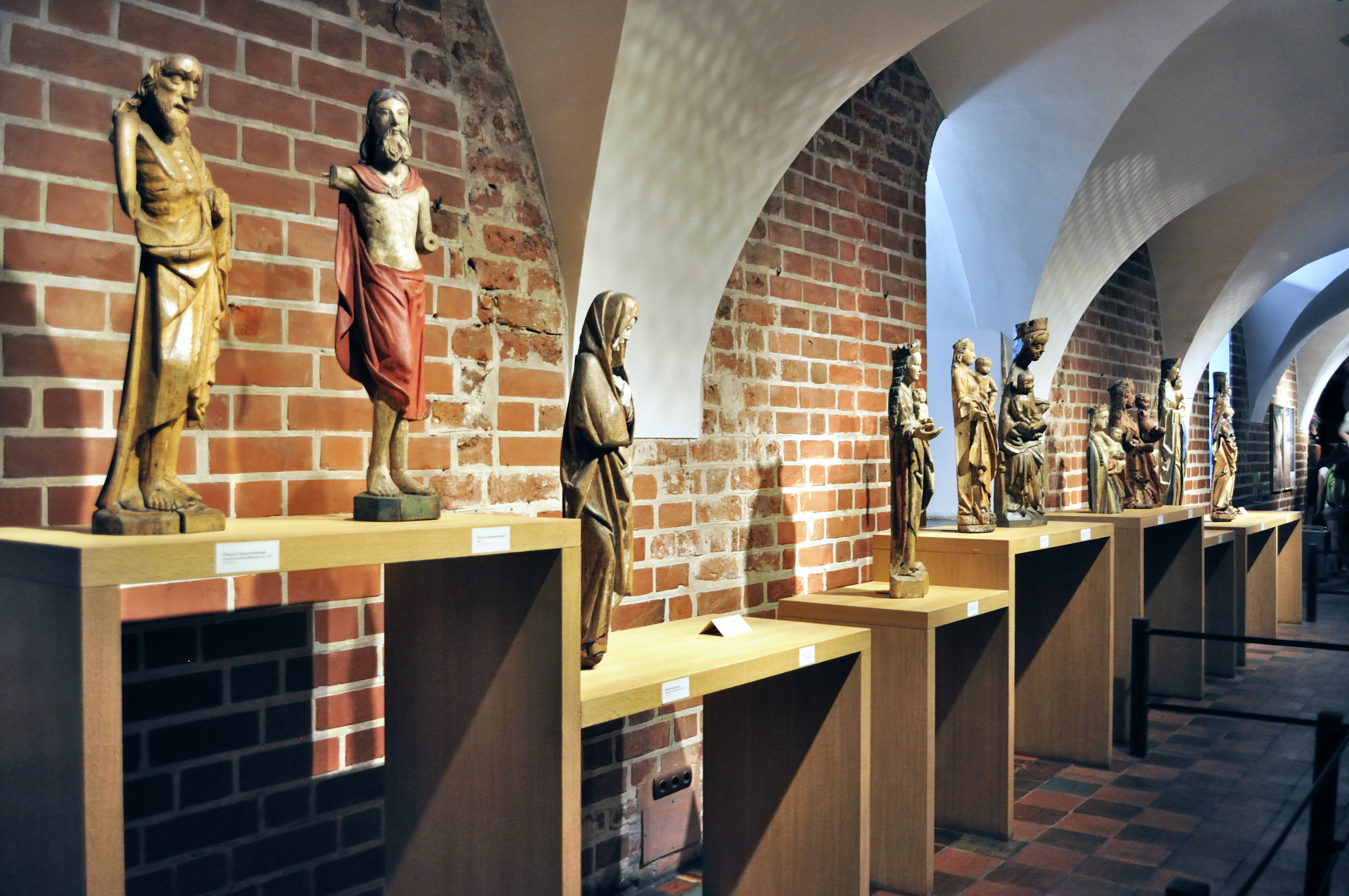 Picture taken in Malborg after Wikimania 2010 conference.